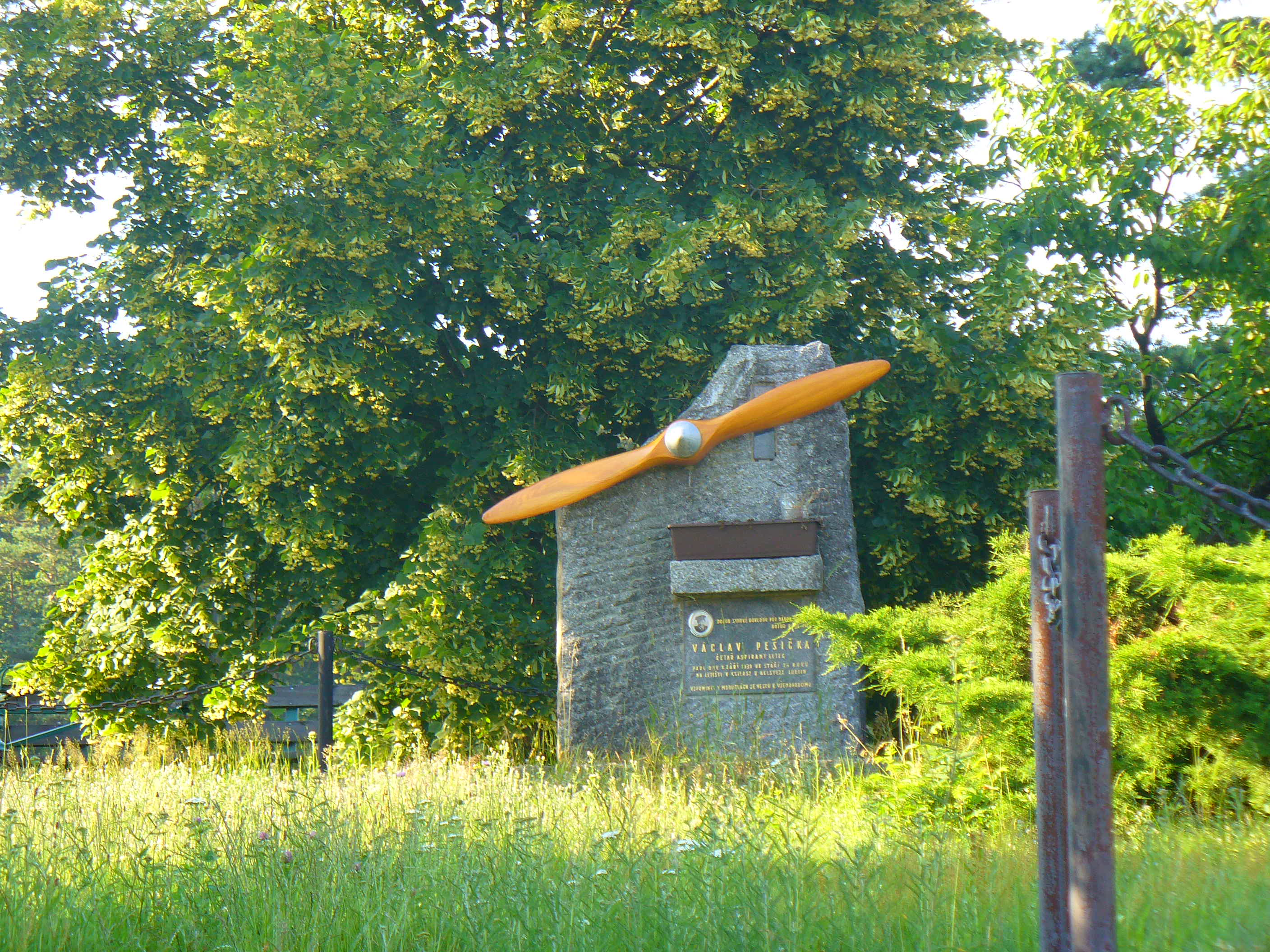 Monument in Hostín